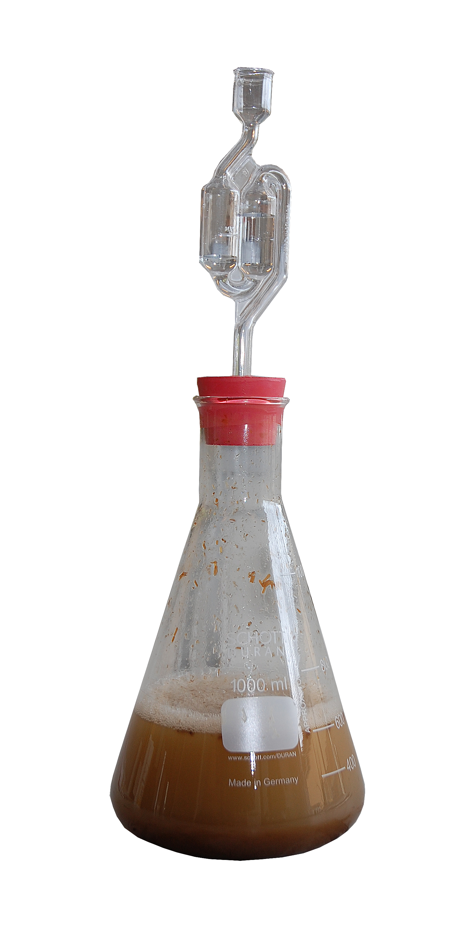 Fermentation. Making of bio-ethanol from straw